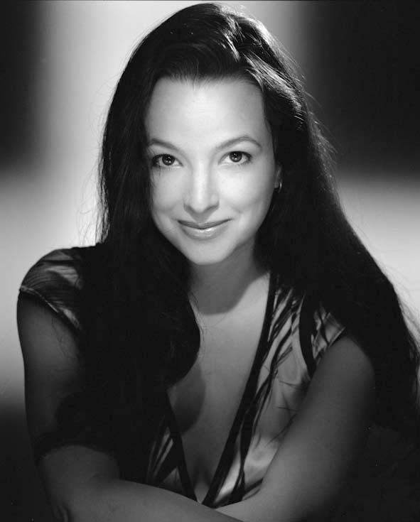 Eliette Abecassis photographed by Studio Harcourt Paris